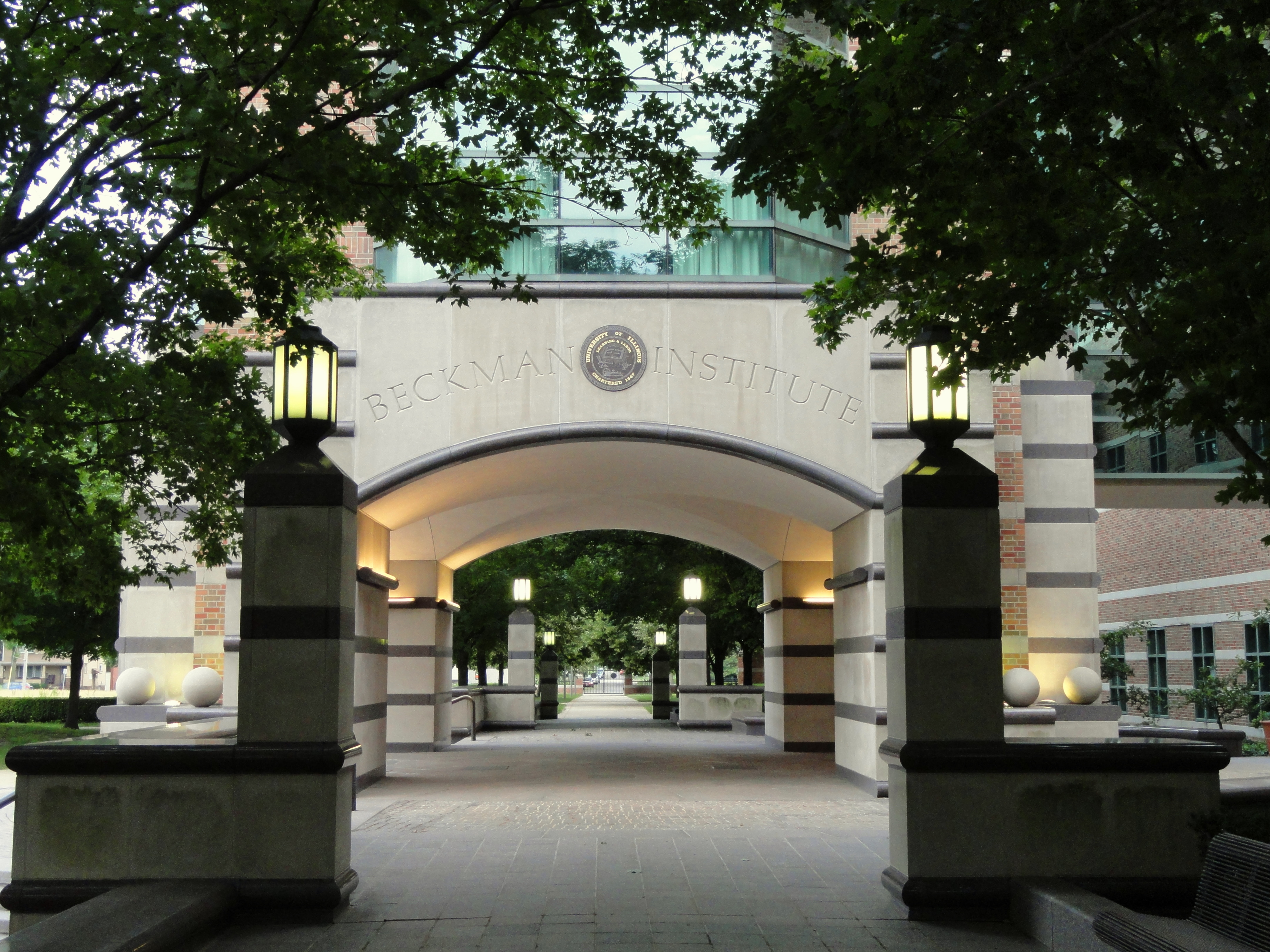 Building on the campus of the University of Illinois at Urbana-Champaign (UIUC), Urbana-Champaign, Illinois, USA.